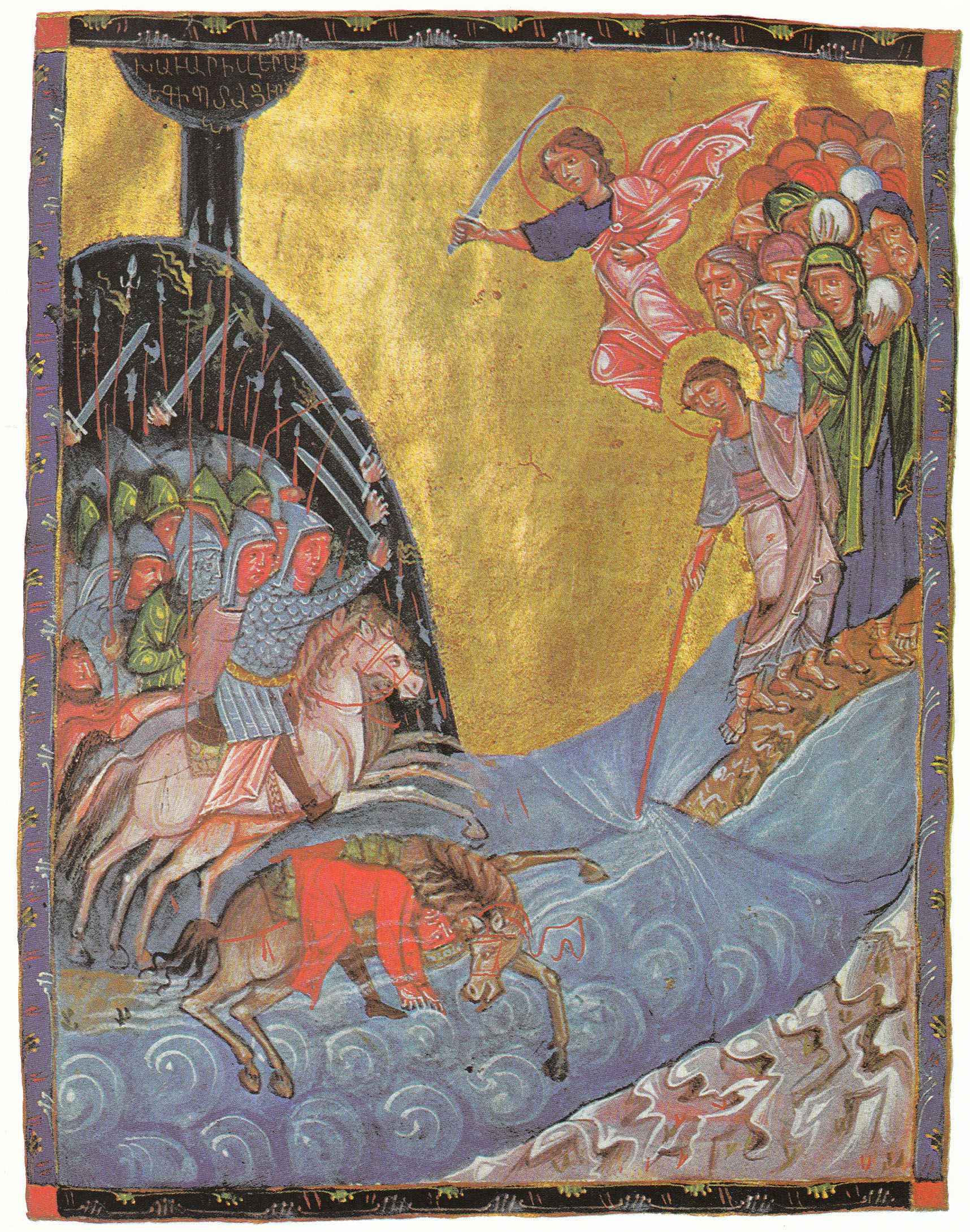 Passage of the Red Sea Mashtots, 1266, The Passage of the Red Sea, Jerusalem, Armenian Patriarchate Library, No. 2027